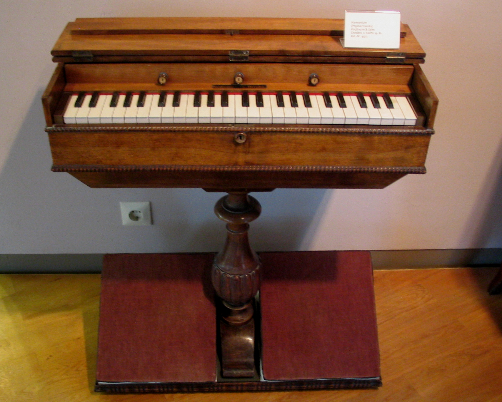 Harmonium. Museum of Musical Instruments. Berlin